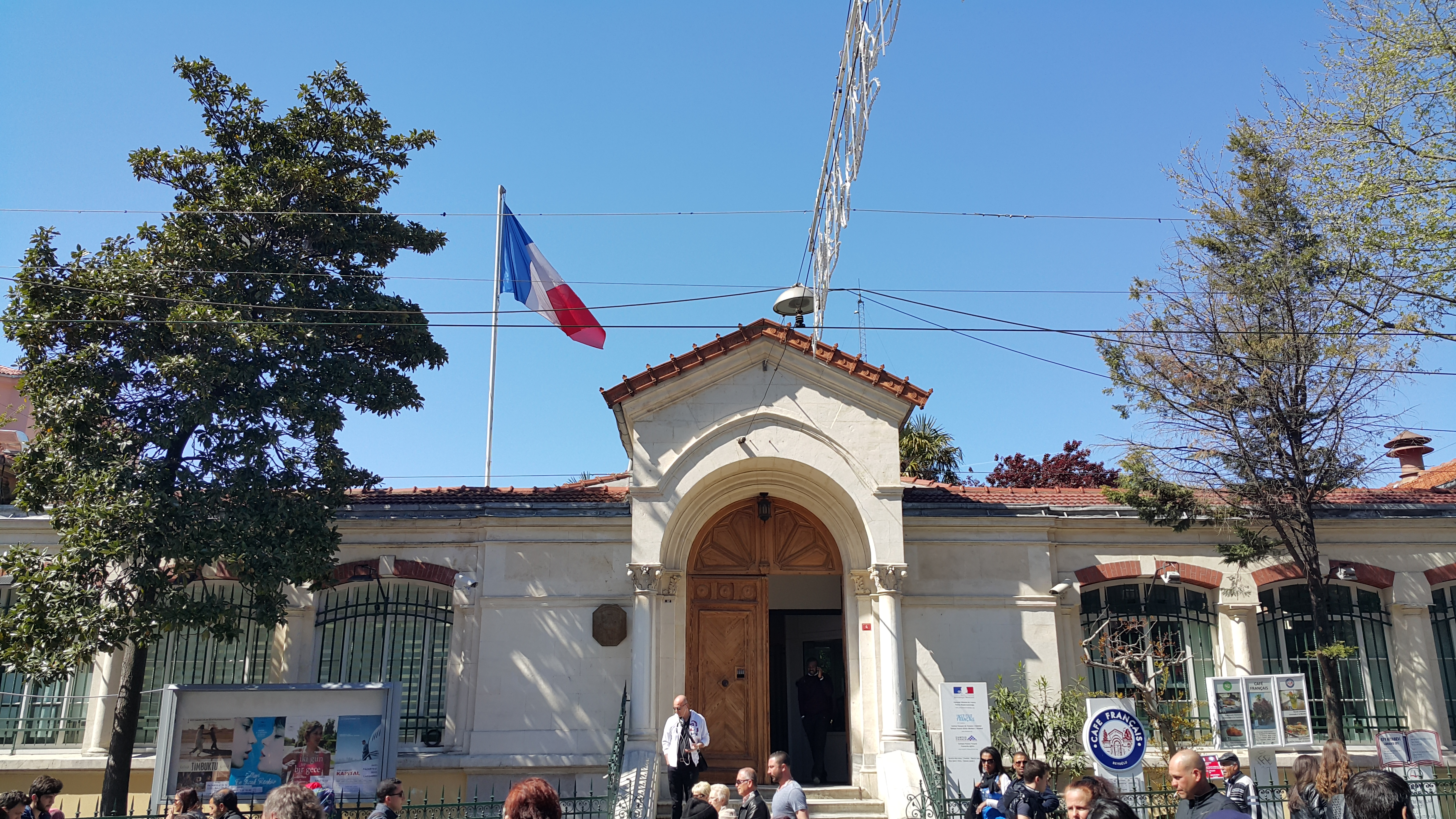 Consulate-General of France in Istiklal Avenue, Istanbul, Turkey.